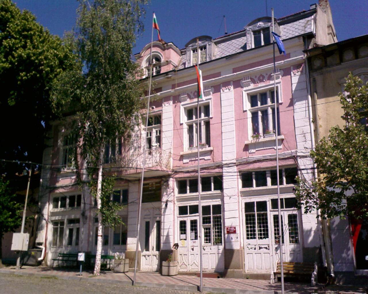 The city council in the Bulgarian town of Radomir